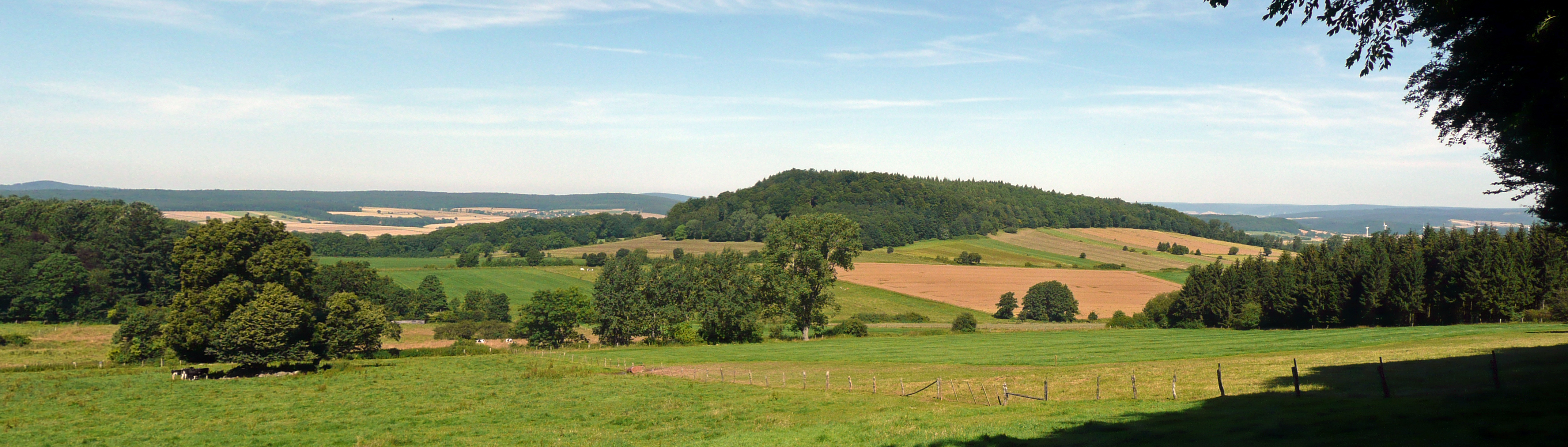 The Dransberg near Dransfeld seen from SE, Landkreis Göttingen, South Lower Saxony, Germany.